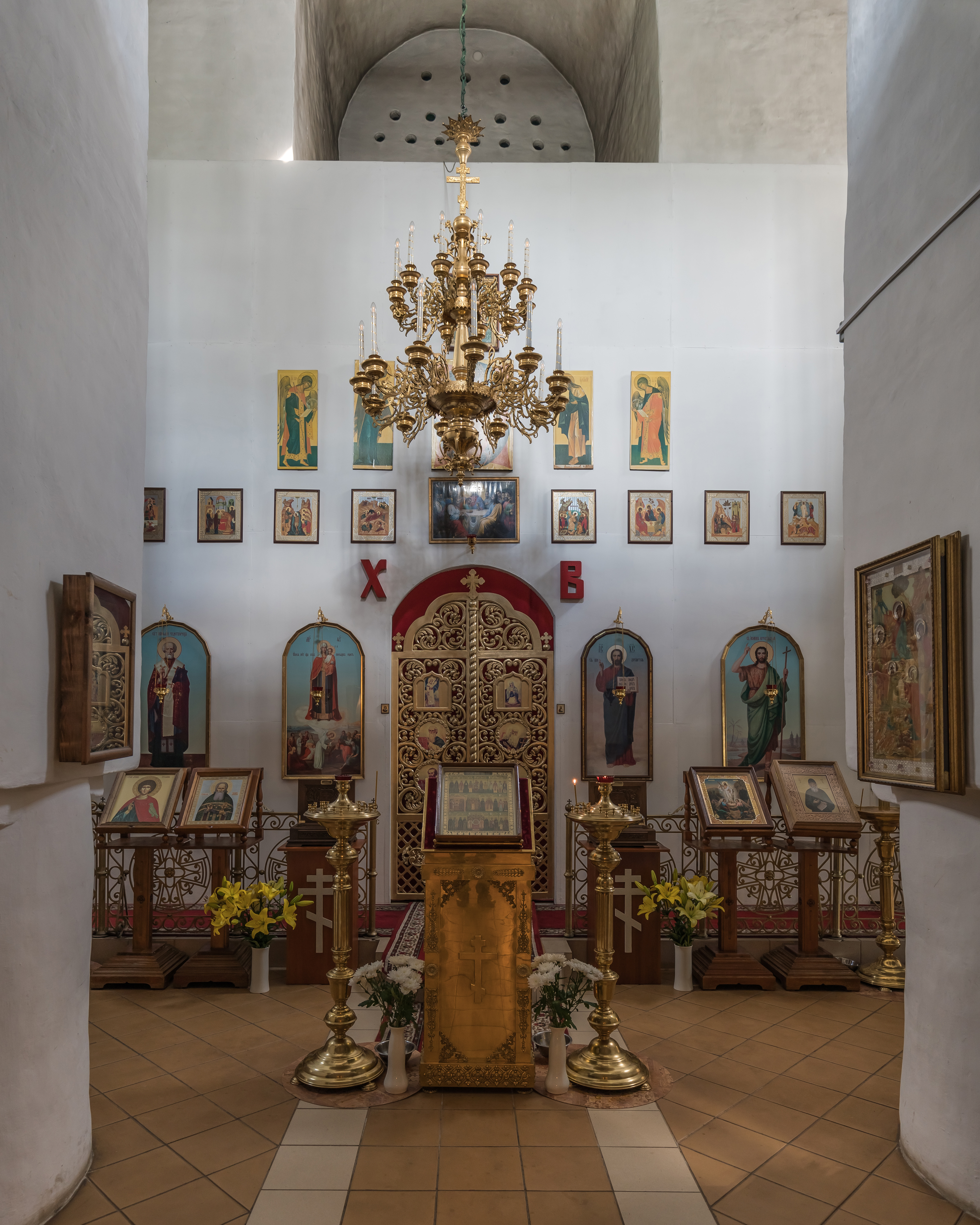 Interior of Resurrection Church «so Stadischa» in Pskov, Russia